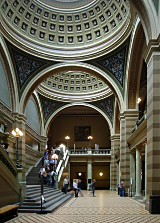 Entrance hall of Uppsala University main buildingdscn1109.jpg